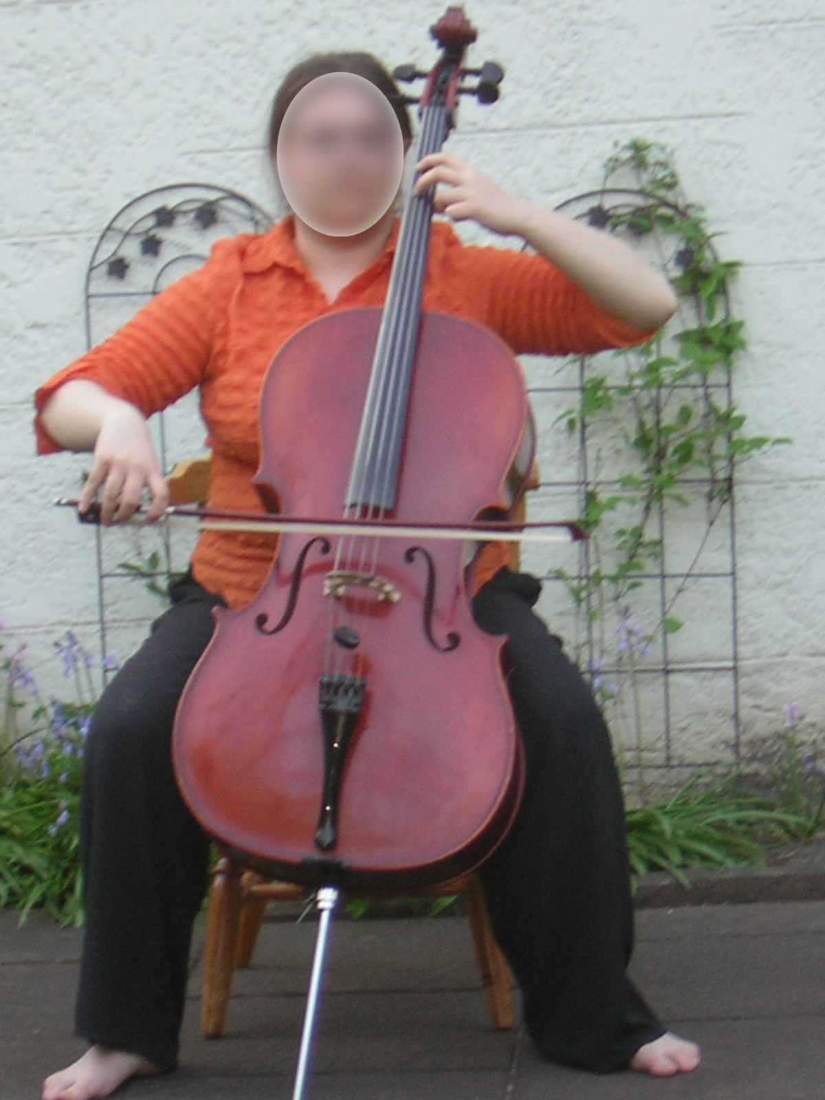 Mainzel3 (german Wikipedia) took this photo, it shows his older sister (wiebketru) while playing cello. Special thanks to her!